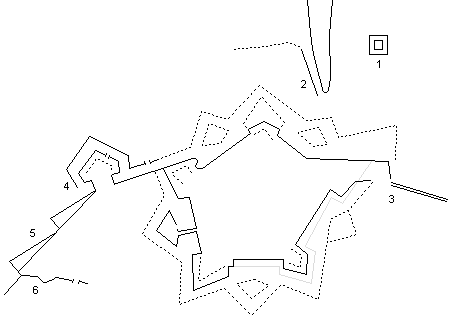 Citadel of Liege in 1702.